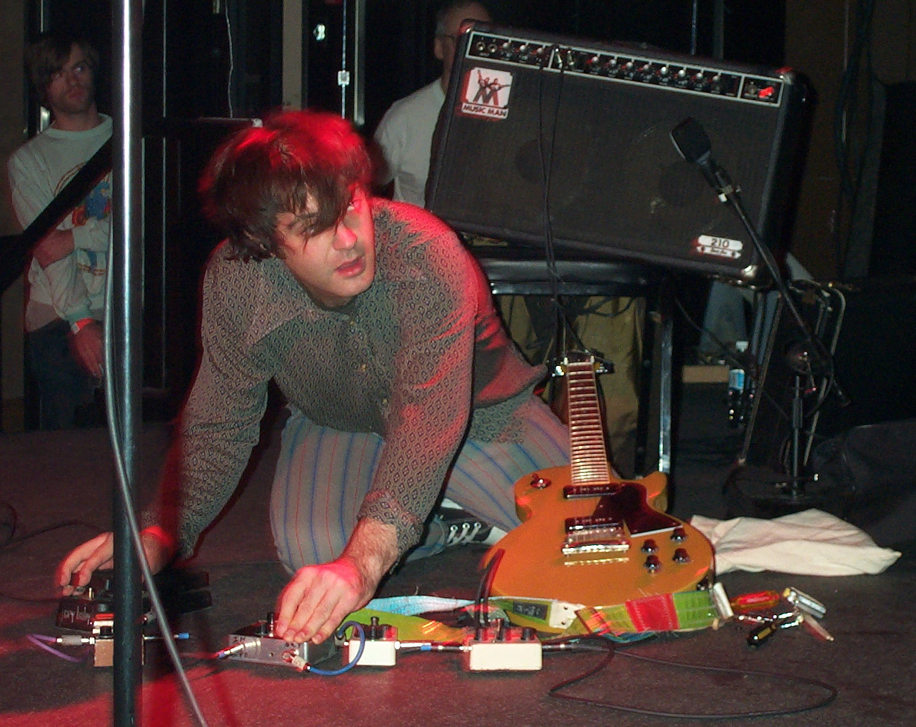 Jim O'Rourke